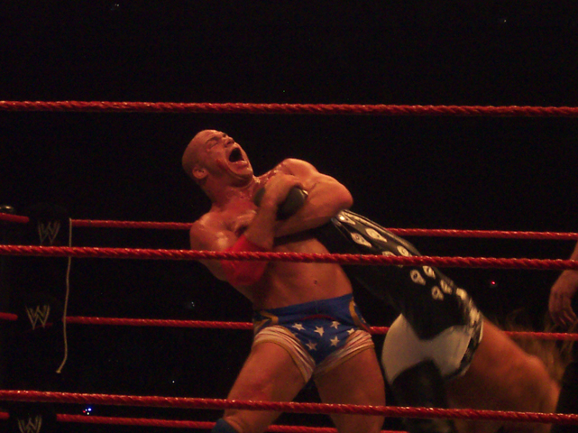 Shawn Michaels and Kurt Angle @ Adelaide, South Australia 'RAW' house show on the 28th of October '05